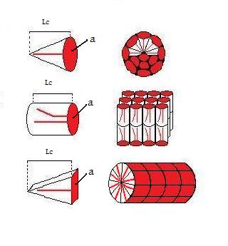 The shape of a surfactant, described by the packing parameter, determines the shape of the micelle formed.